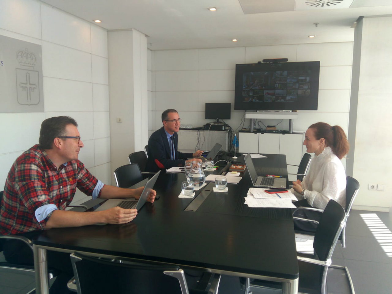 Meeting of the Health Minister of the Principality of Asturias, Pablo Fernández, during the online Inter-territorial Health Council chaired by the Minister of Health, Salvador Illa. (May 25, 2020, Covid-19 pandemic)